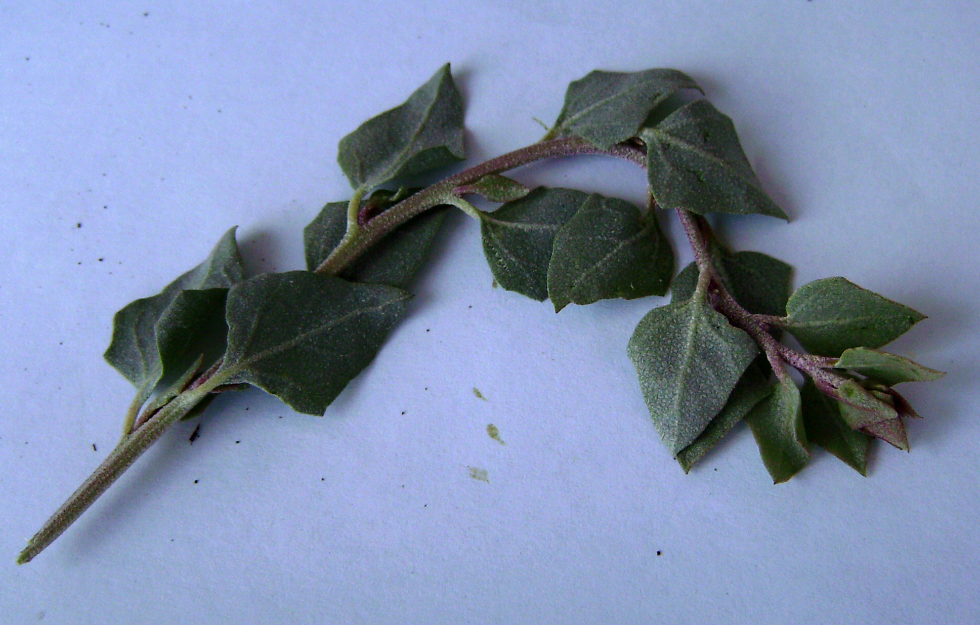 Atriplex halimus from Maials, Catalonia